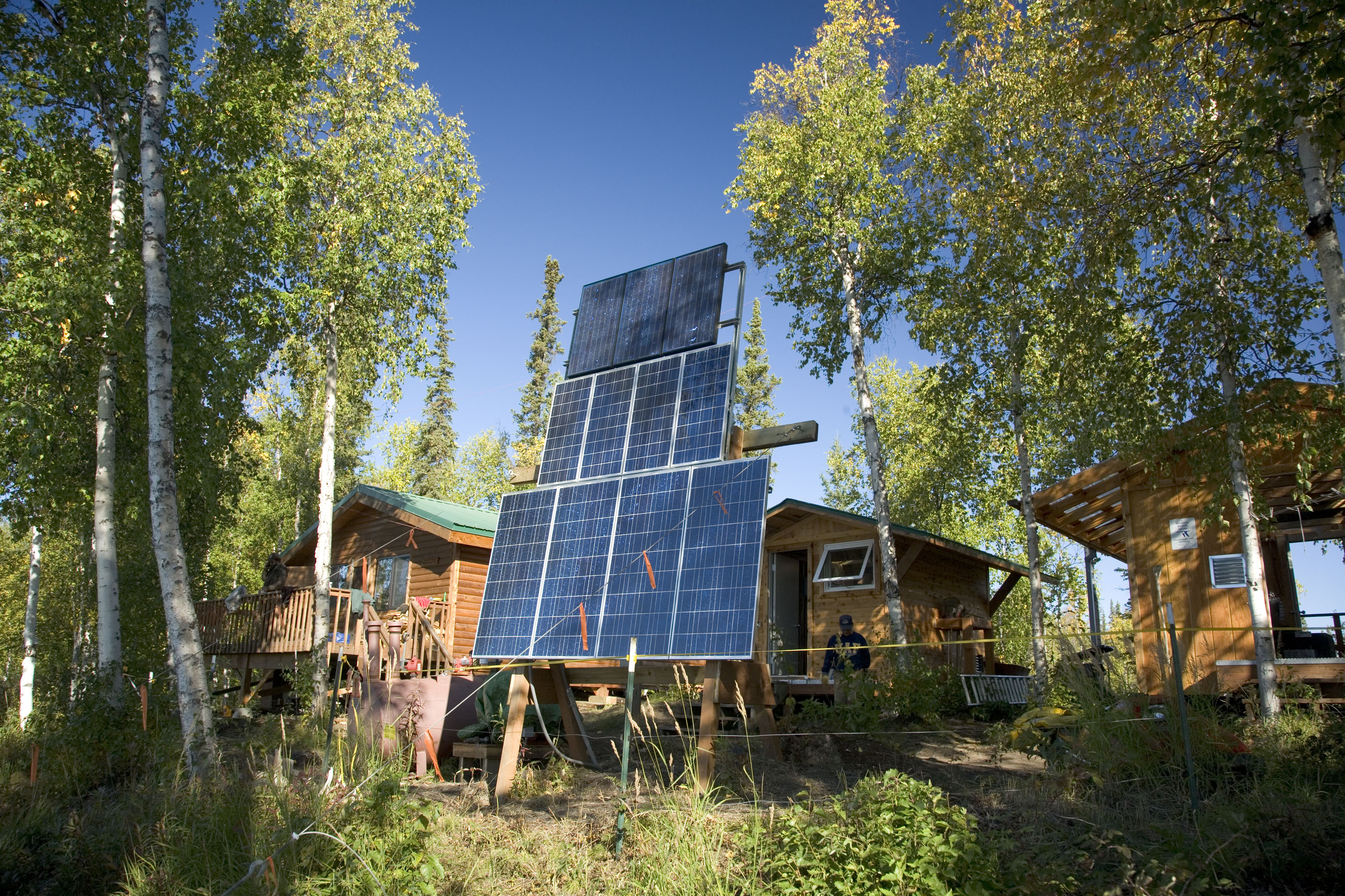 Solar installation at Kanuti National Wildlife refuge, Alaska